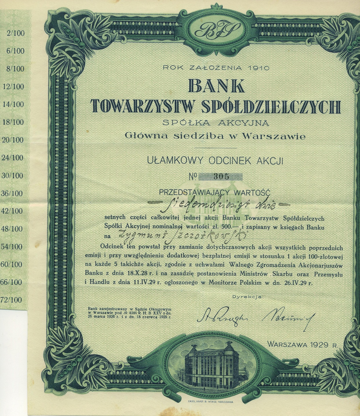 Cooperative Companies Bank Stock Certificate, 1929